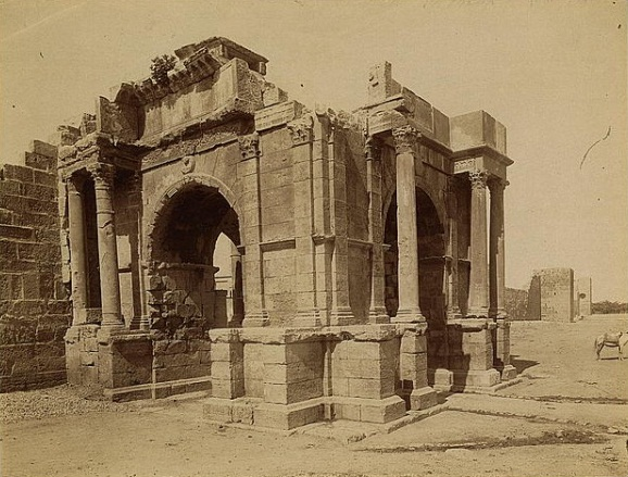 Tebessa. Triumphal arch (tetrapylon) of Caracalla, 3rd century.